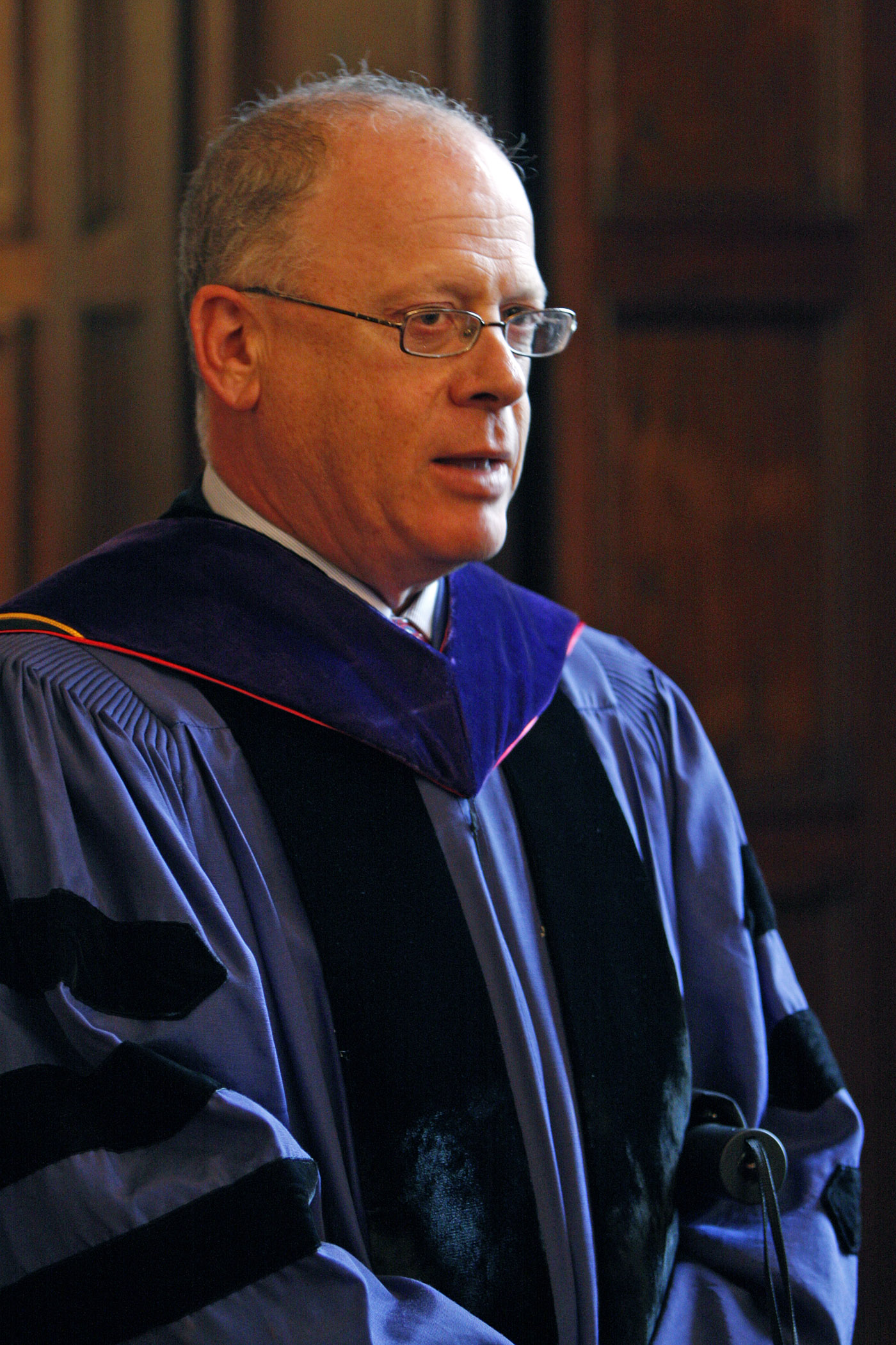 Dean of the University of Chicago Law School Saul Levmore awaits the commencement of the 500th Convocation Ceremony on Saturday.